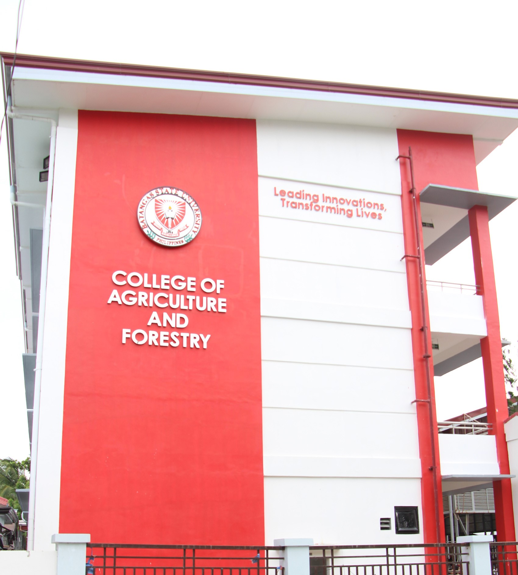 BatStateU Lobo